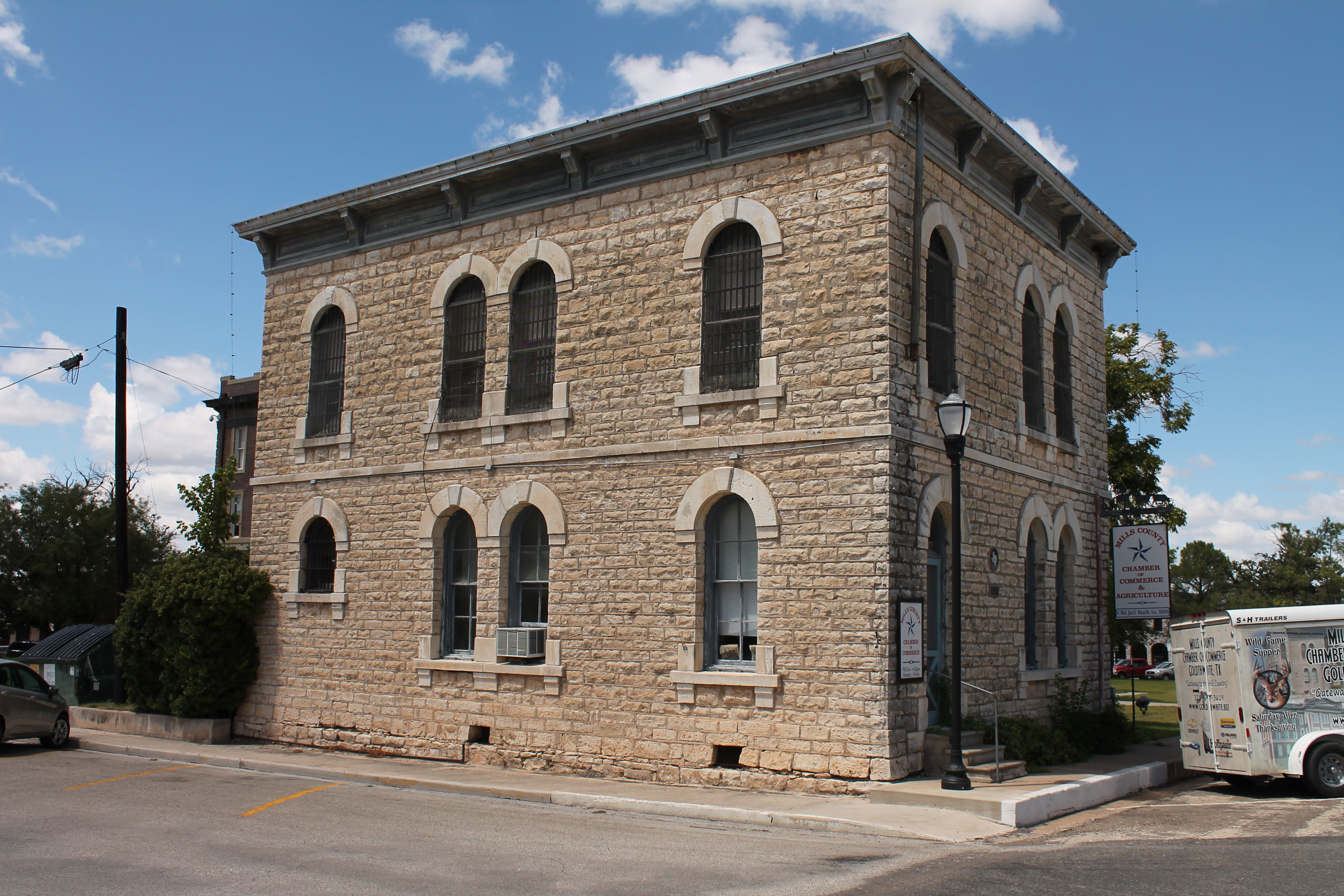 Mills County Jailhouse